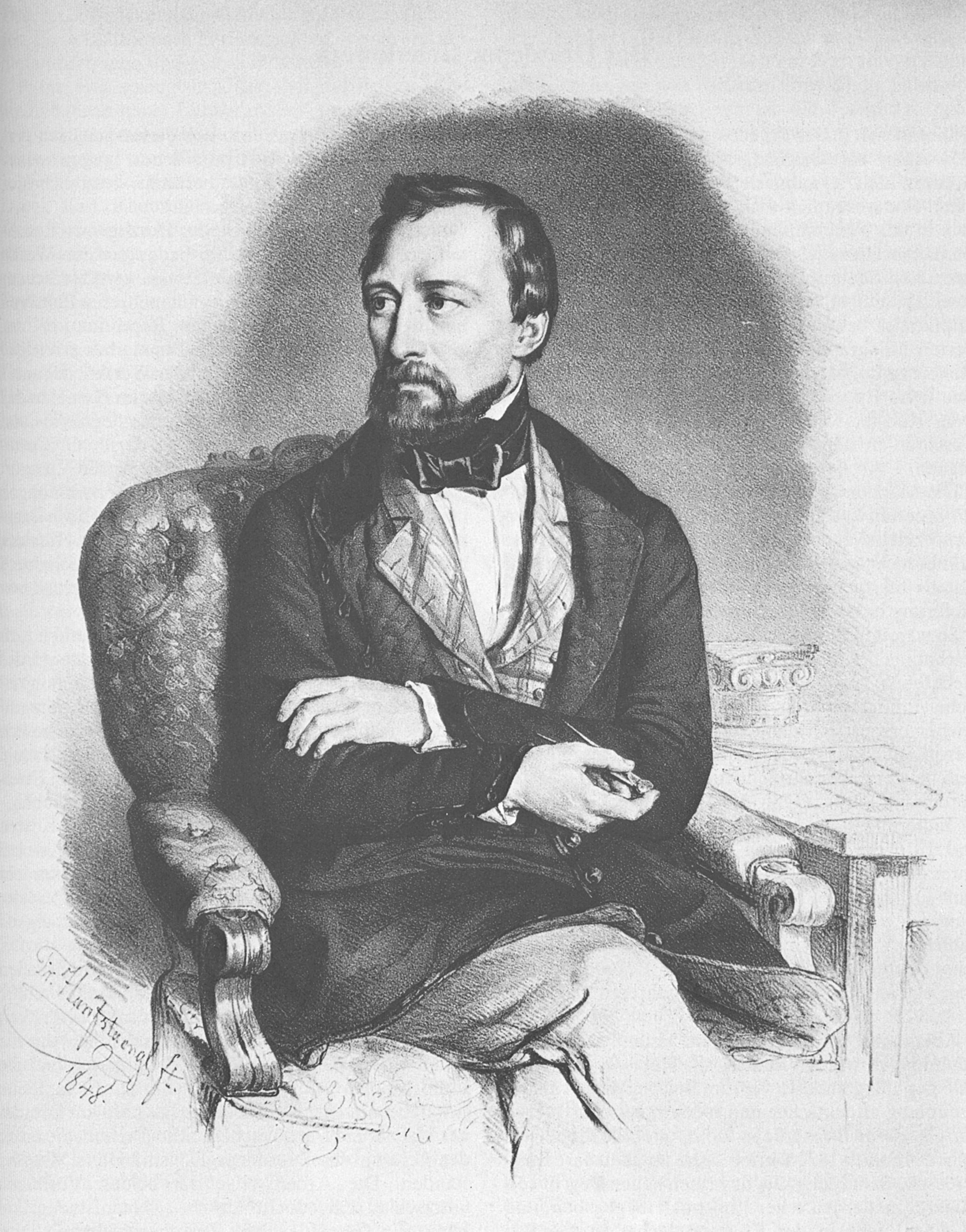 Gottfried Semper(1803-1879), Lithography